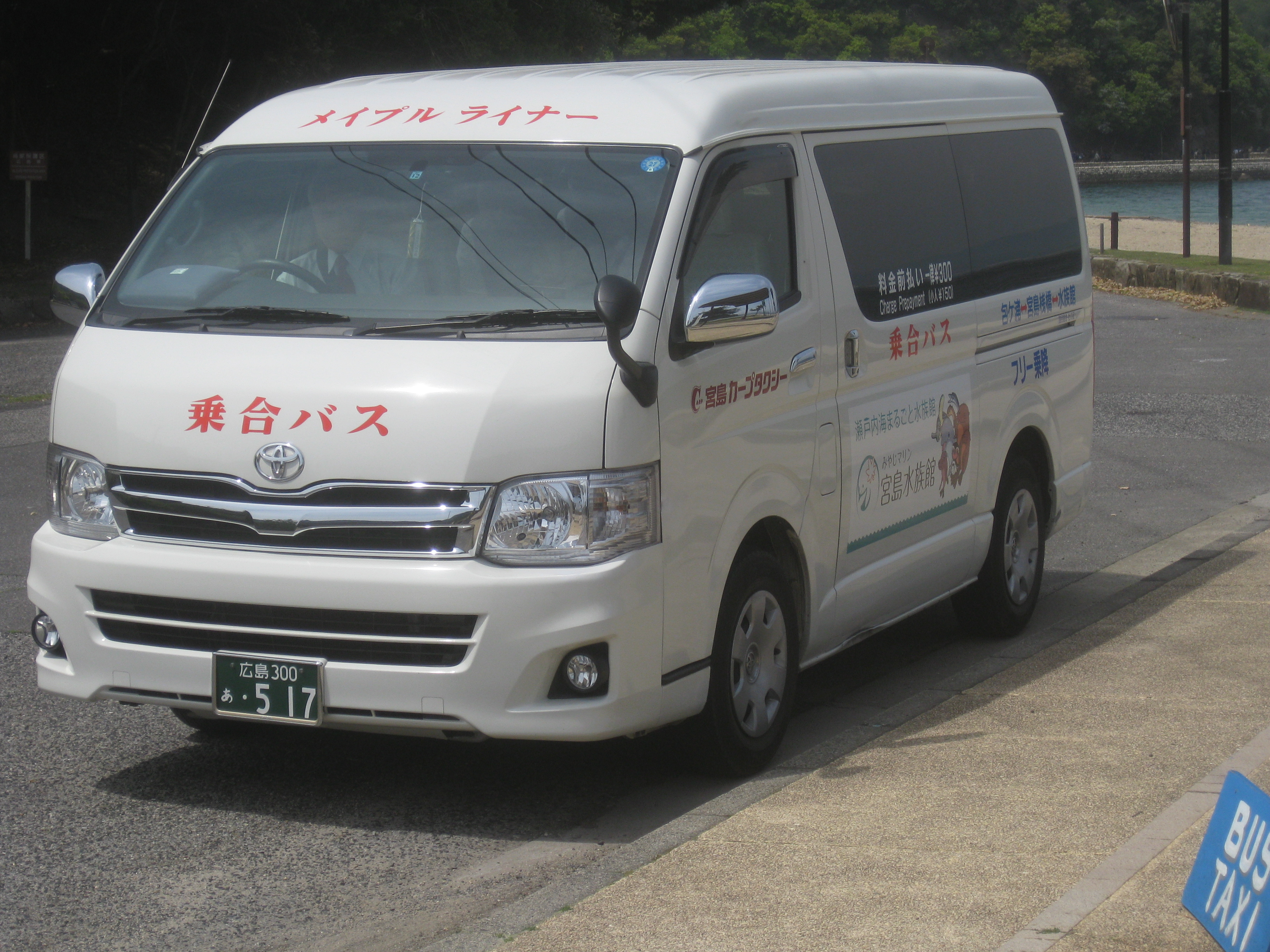 The bus car of Maple Liner(Miyajima Kotsu).